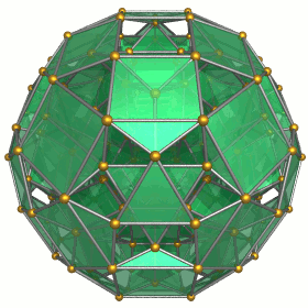 Cantellated 24-cell stereo projection wireframe + prisms